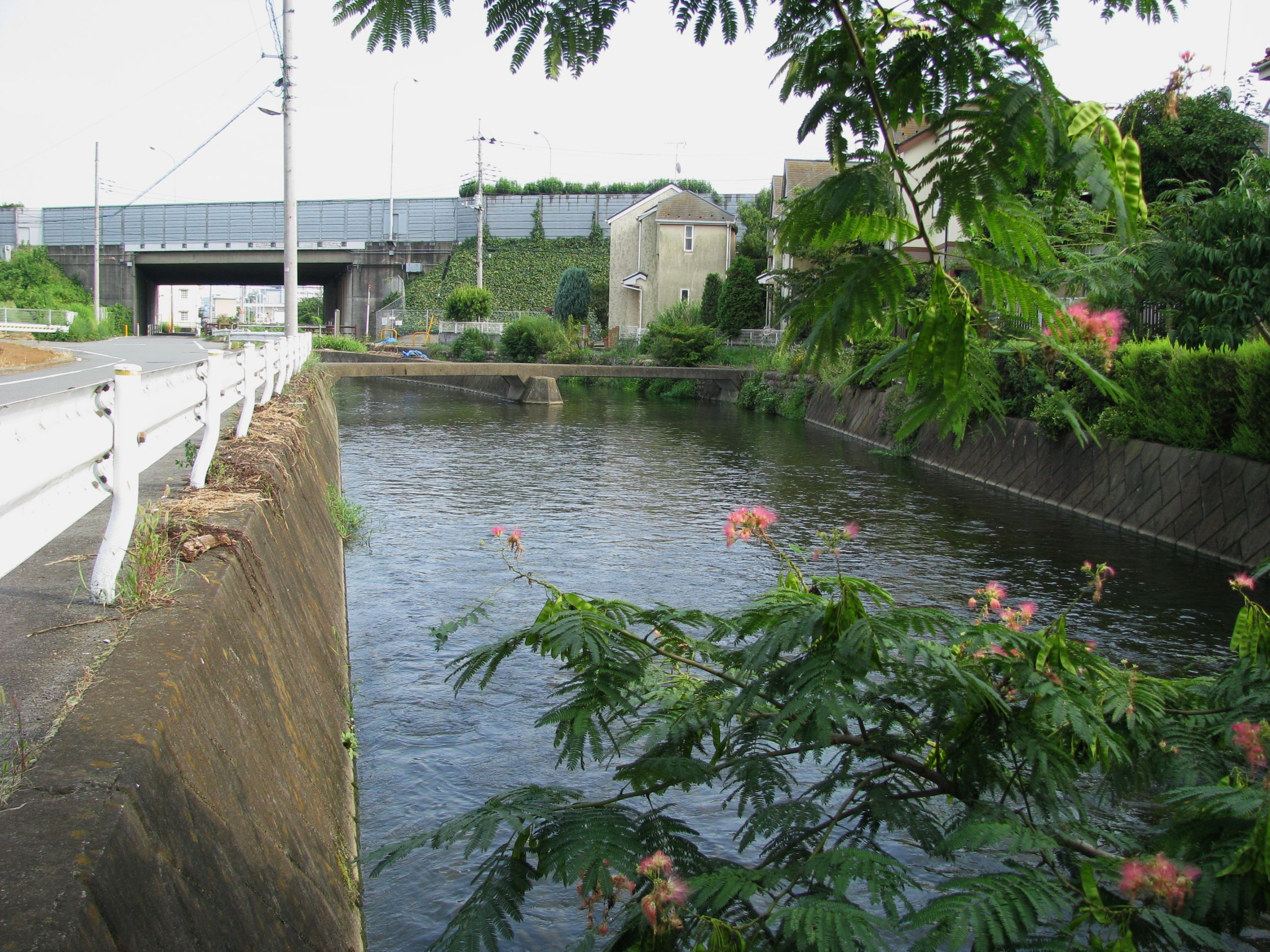 The Fuchū Yōsui is Aqueduct. This location is Izumi in Kunitachi, Tokyo, Japan.